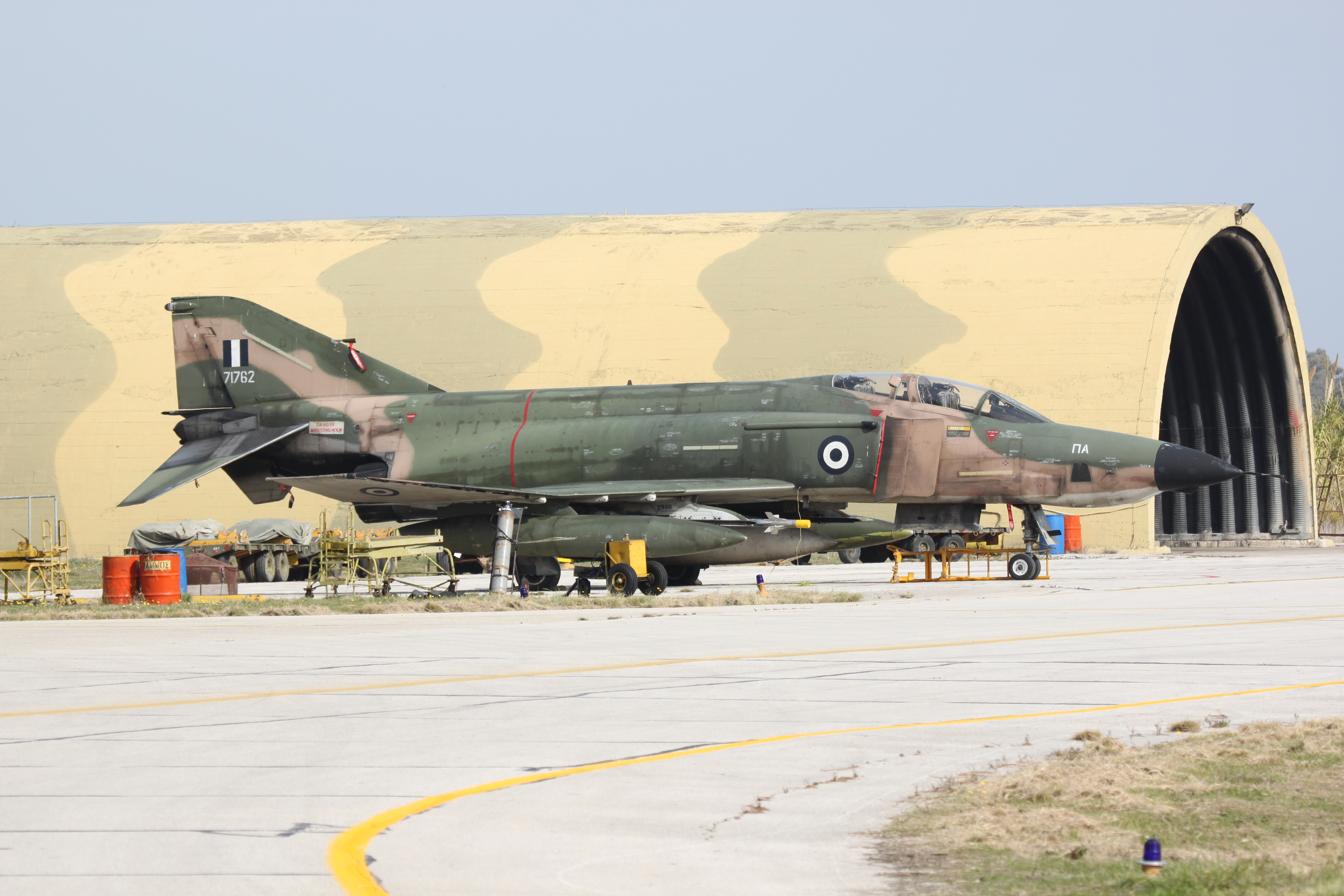 Hellenic Air Force RF-4E, armed with AIM-9 Sidewinders, belonging to the Air Warfare Centre at Andravida AB, Greece.